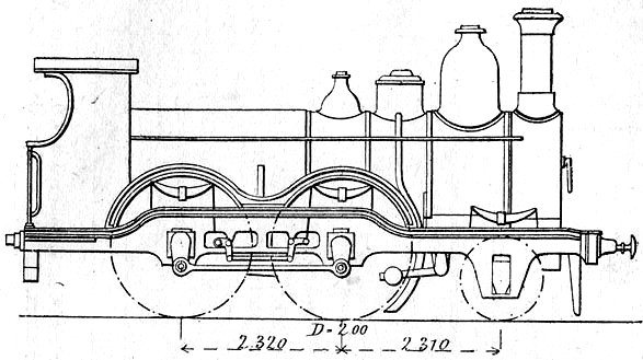 Etat Belge 120